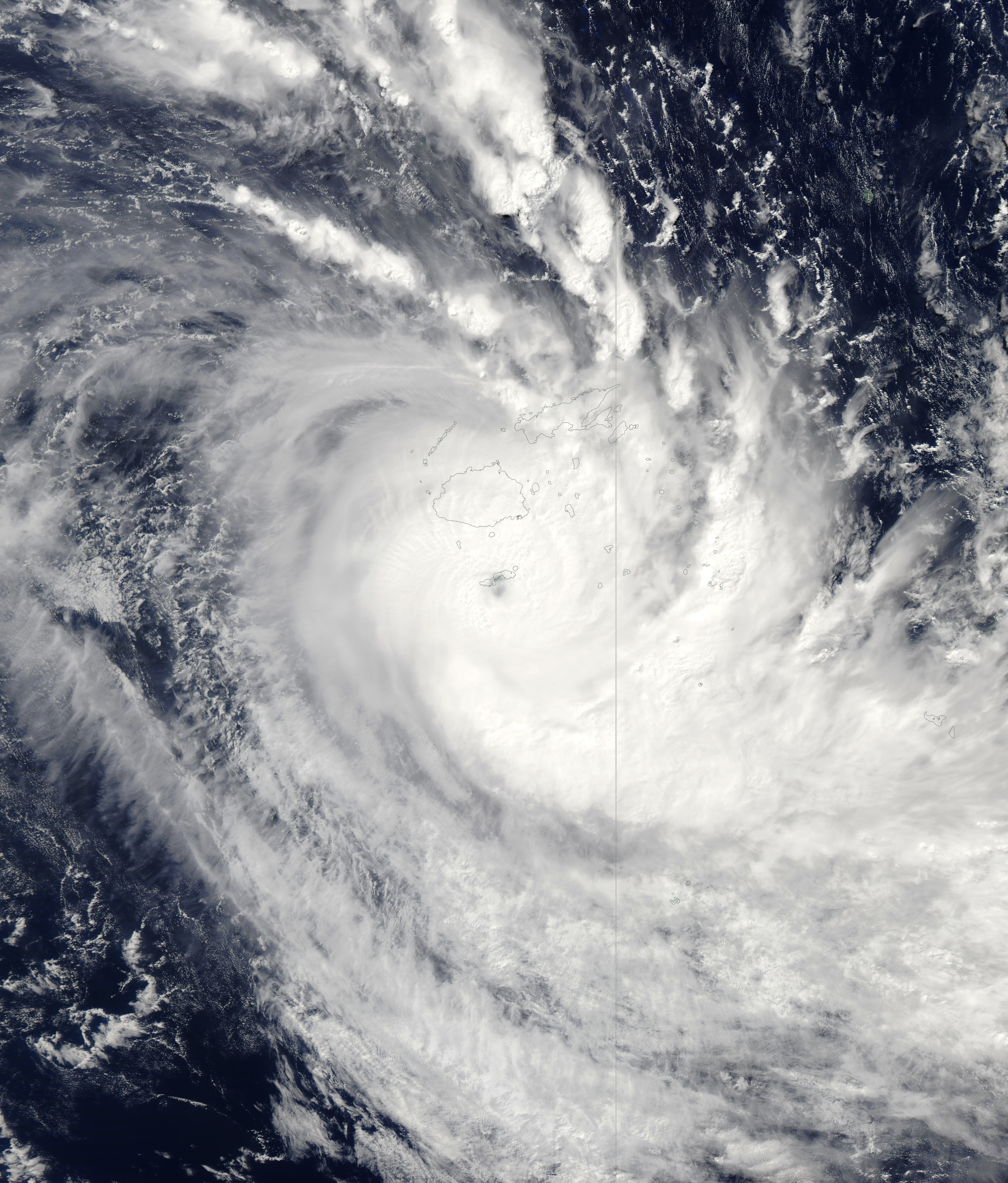 Cyclone Harold moving over the island of Kadavu in Fiji on April 8, 2020, as imaged by the MODIS instrument onboard NASA's Aqua satellite.